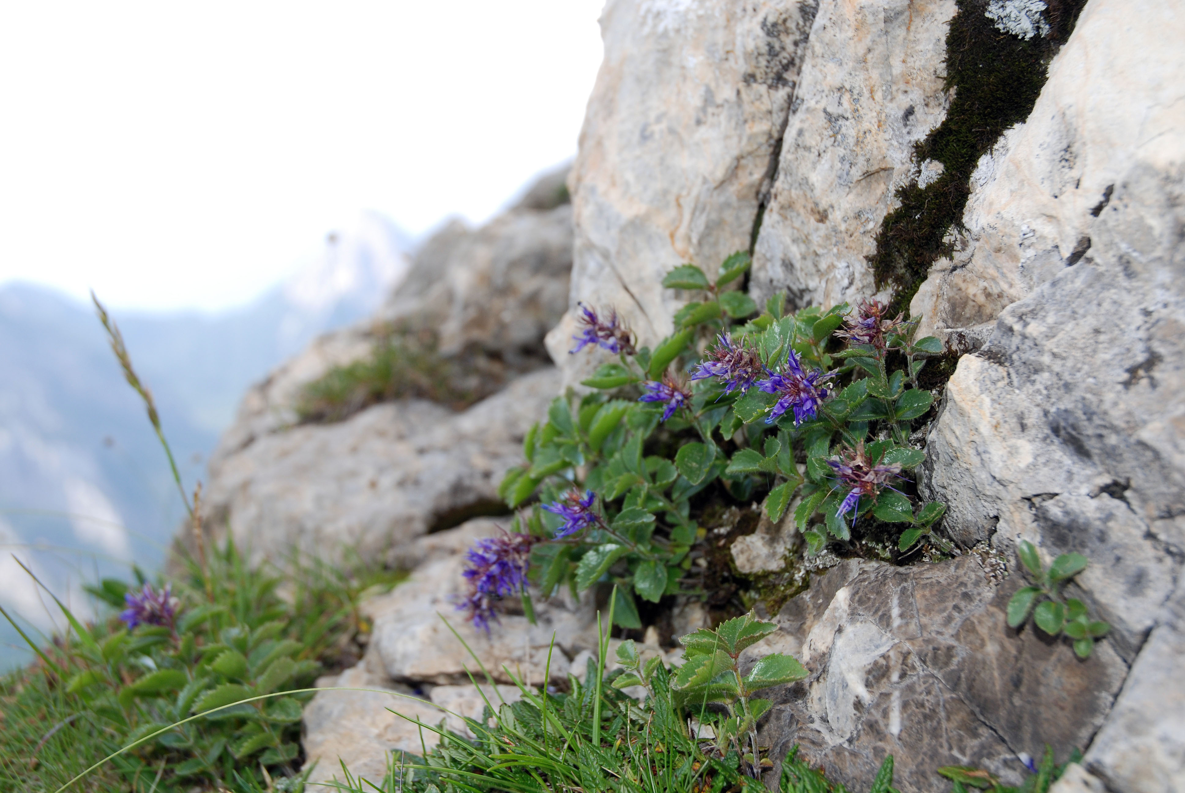 Paederota bonarota, Near Giromondopass , Karnische Alpen, Carinthia , Austria